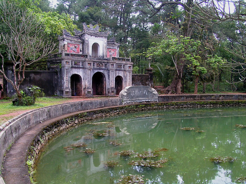 Tu Hieu Pagoda, Huế, Vietnam.